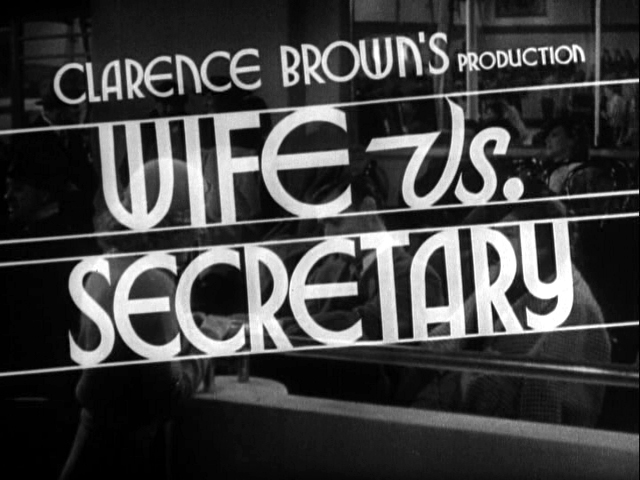 Title from trailer of the film Wife vs. Secretary (1936).